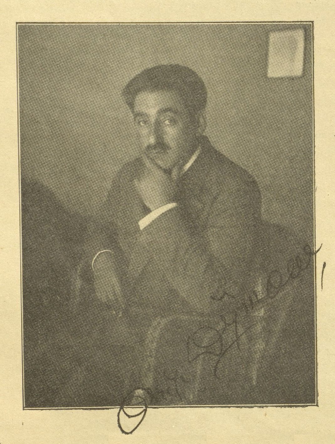 Osip Dymov (1878–1957)